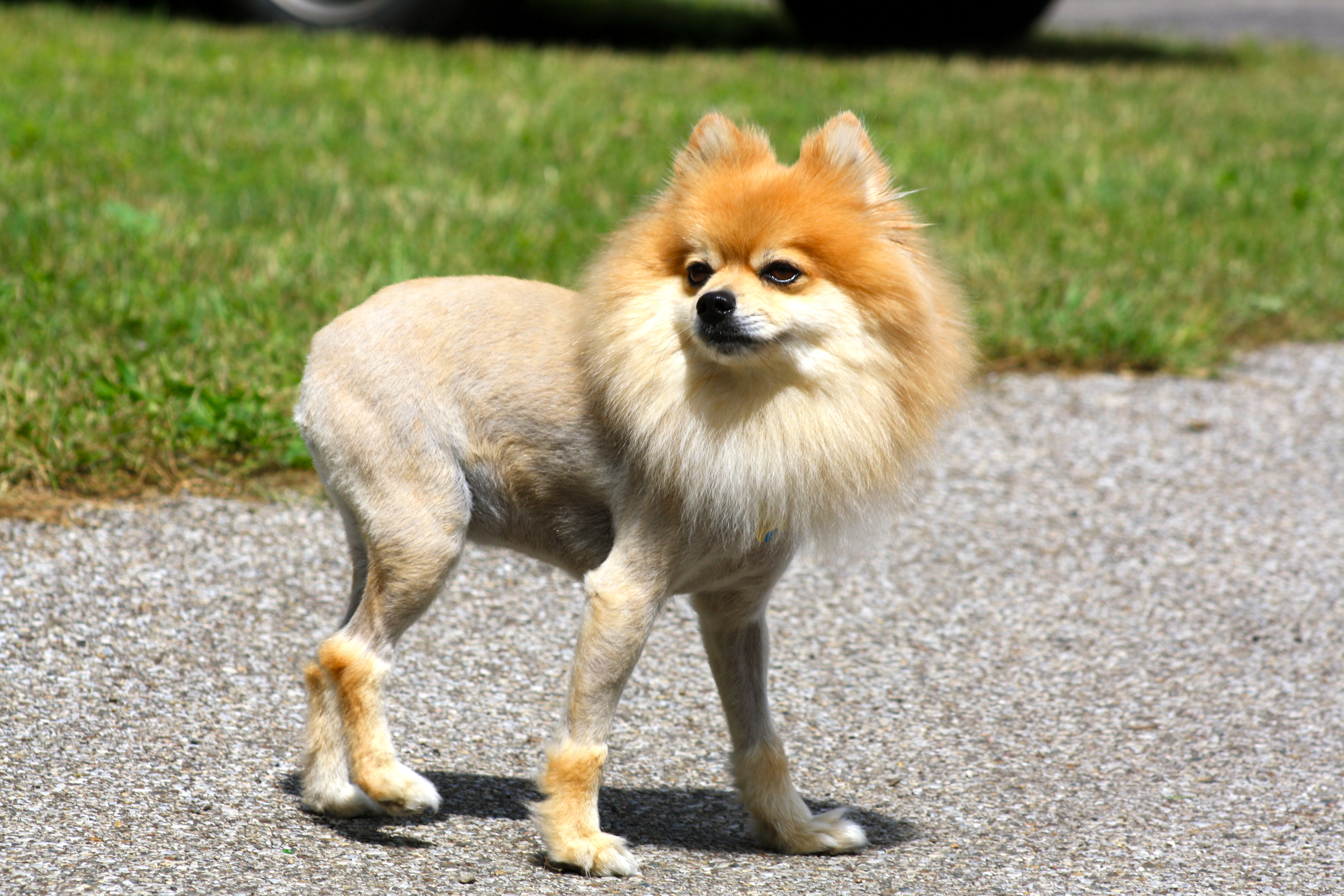 a dog that looks like a lion